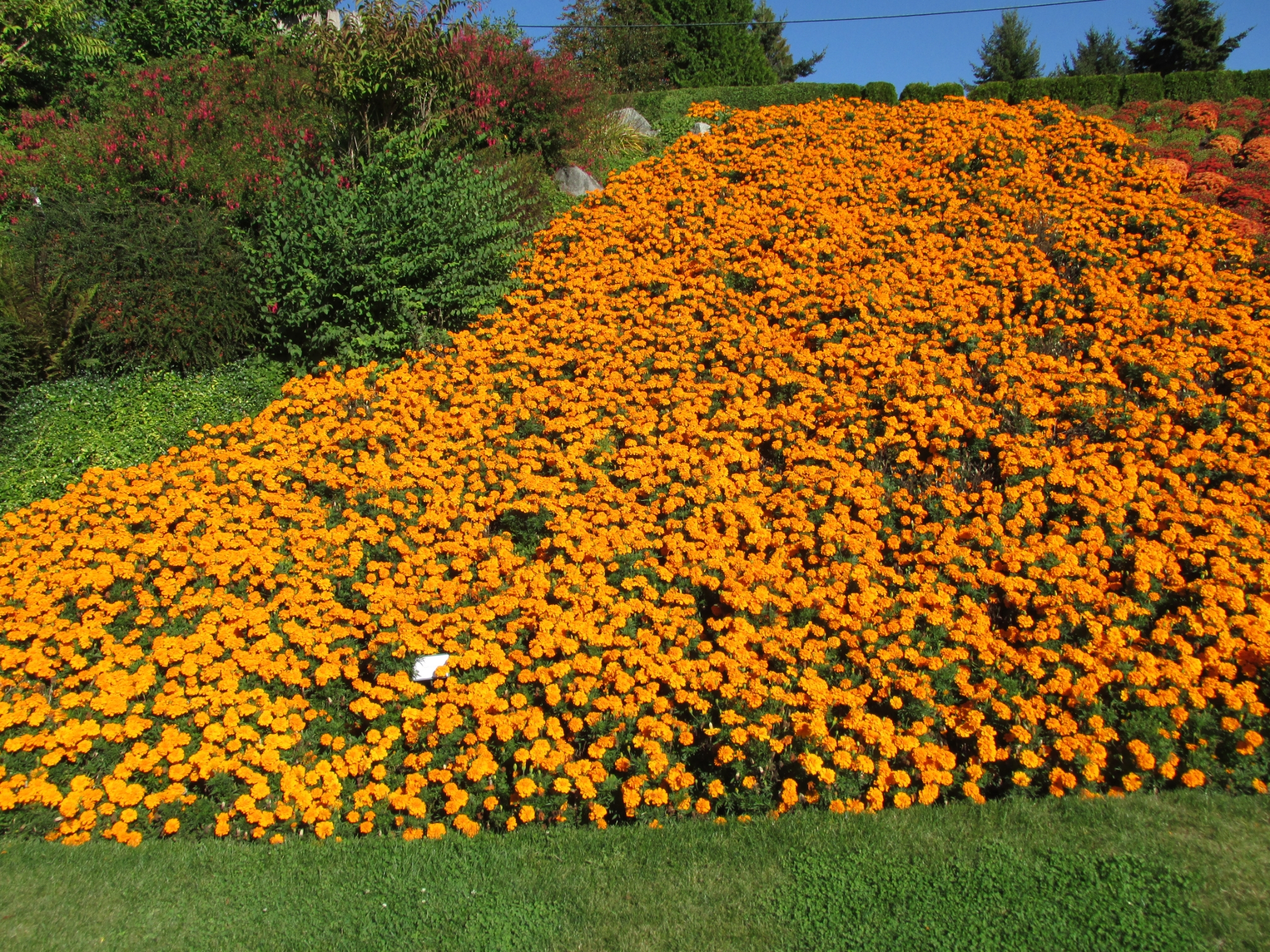 Flowers at Peace Arch Park